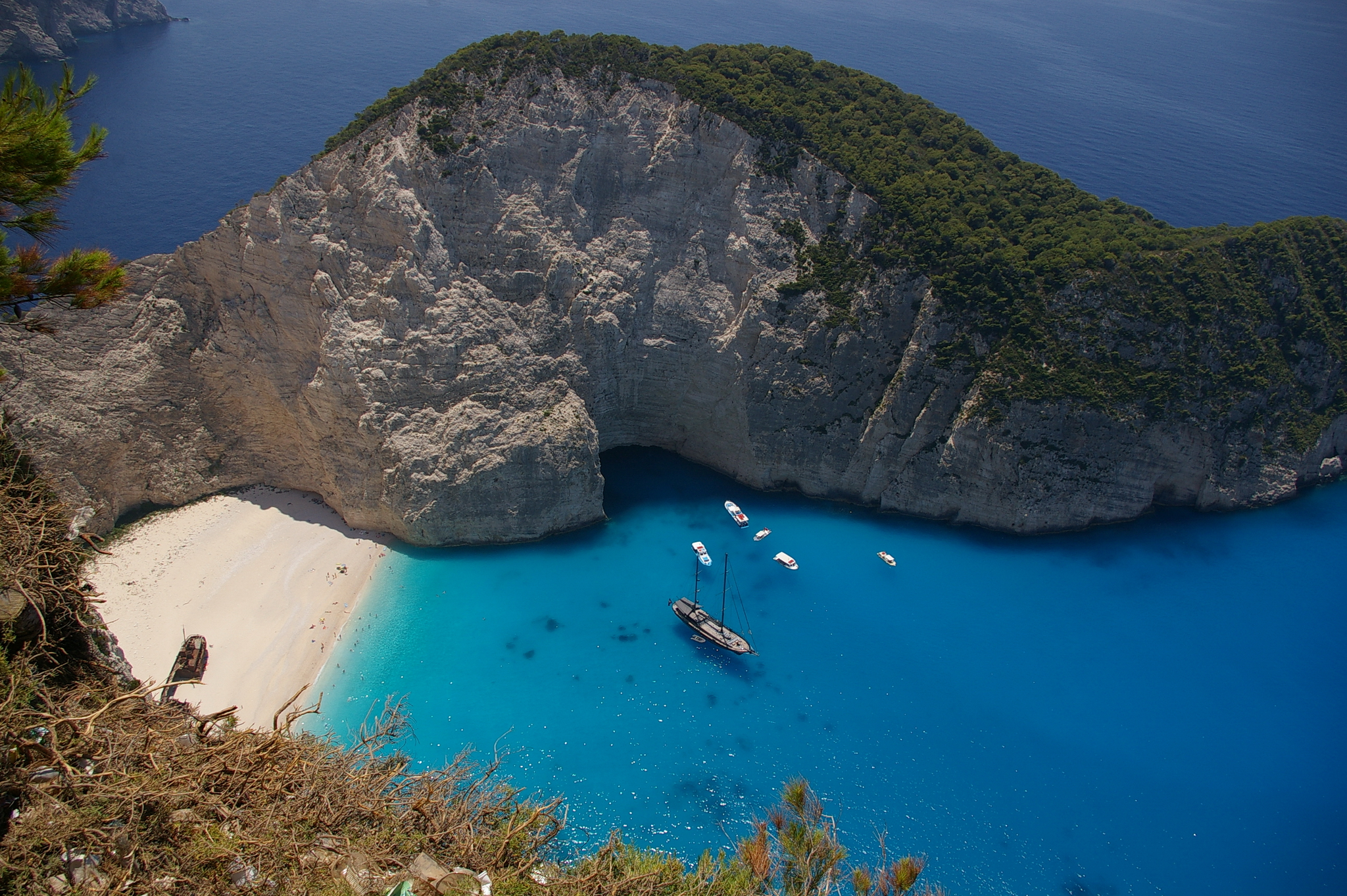 The beach Navagio, Zakynthos, Greece. Also known as Ship Wreck.